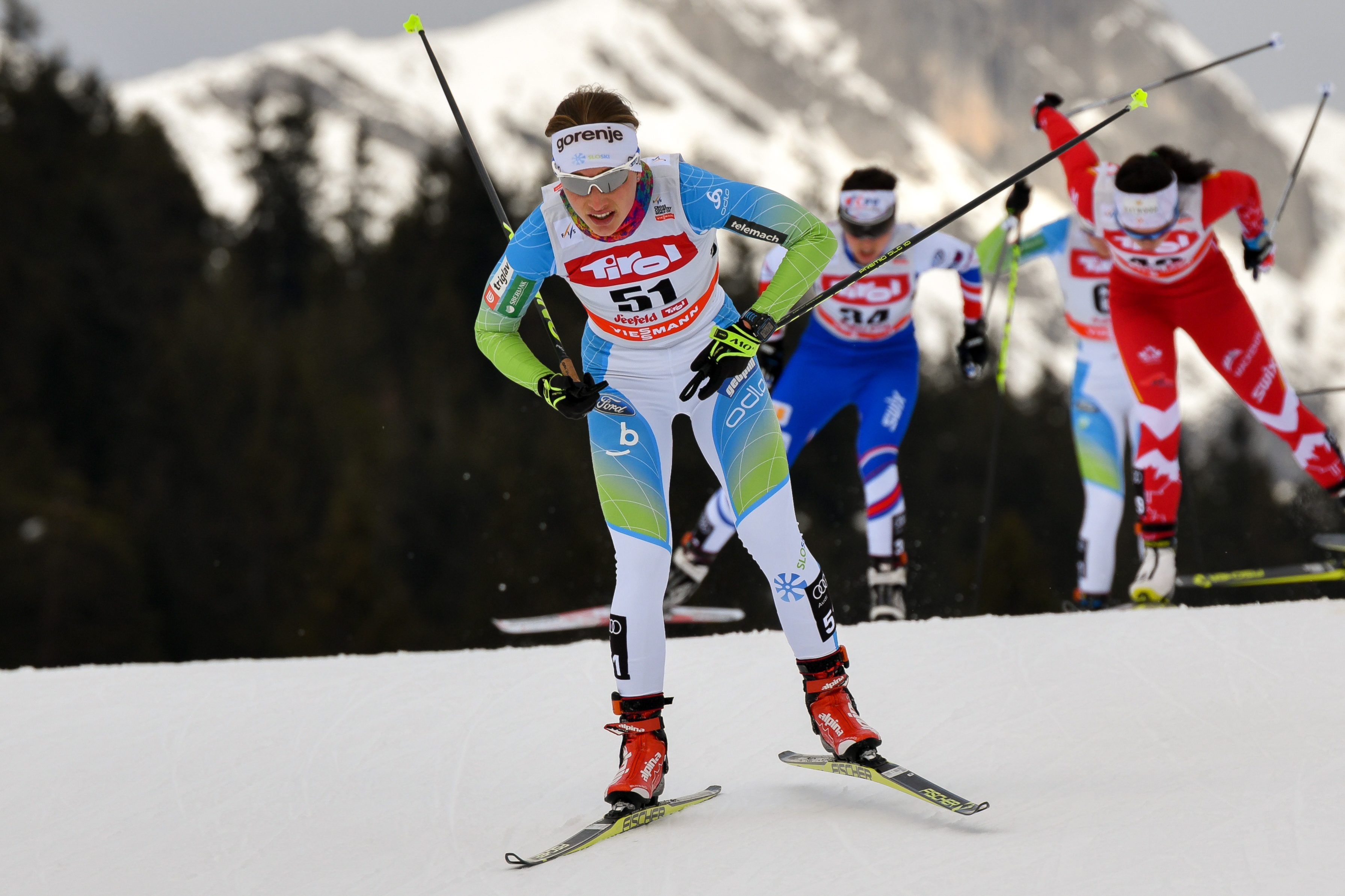 Seefeld-Triple 2018, third day January 28th. Picture shows SLABANJA Manca (SLO).